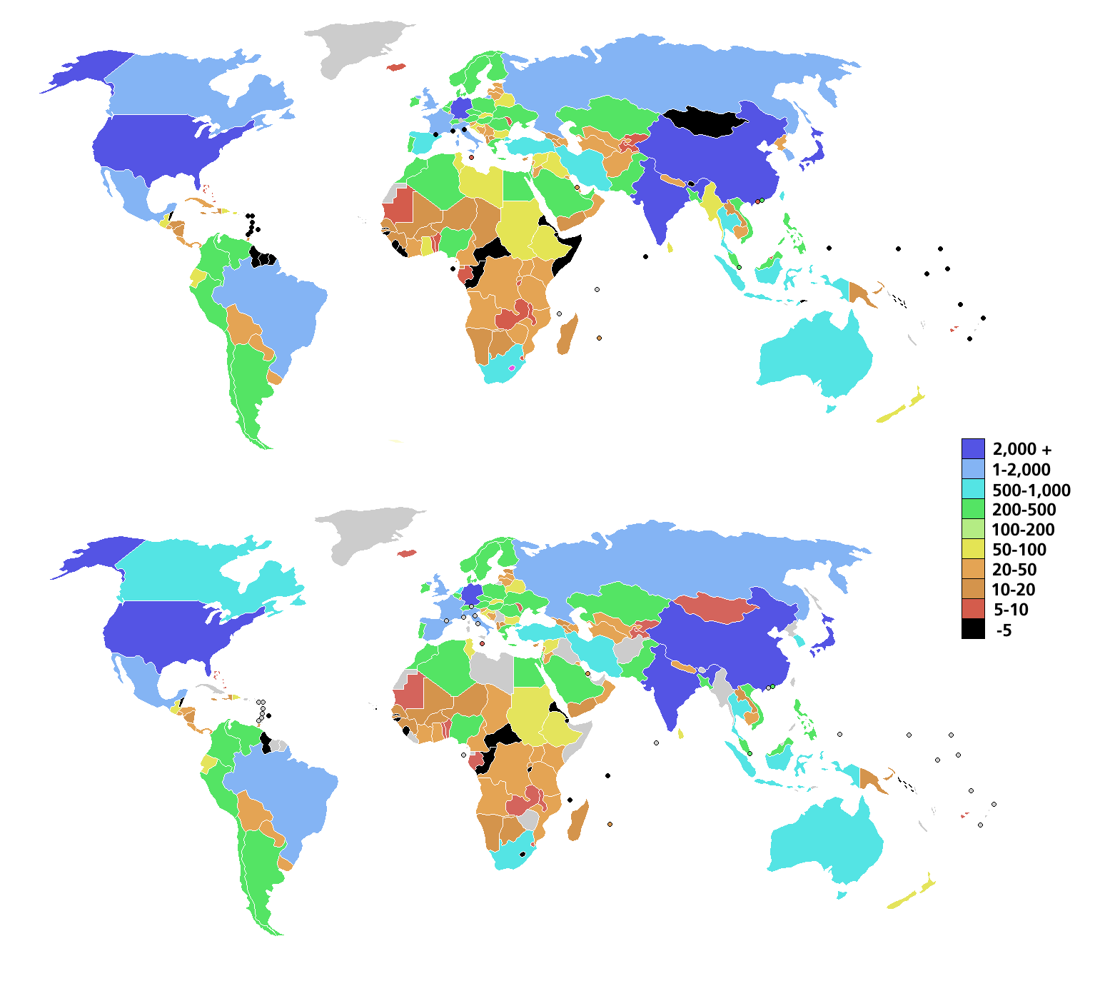 Countries by GDP, (purchasing power parity) in billions of US dollars for 2004. Top map is based on the IMF list, bottom map is based on World Bank list, as listed at List of countries by GDP (PPP). Updated with 2005 map